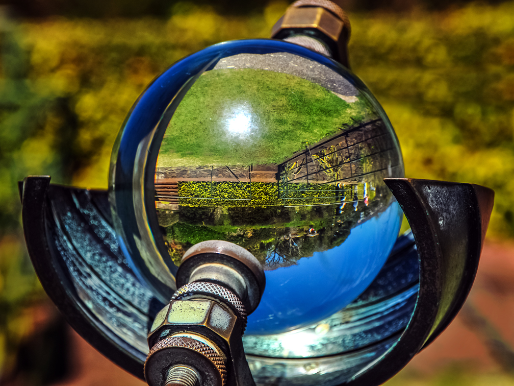 Sunshine autograph in the Botanical Garden Funchal